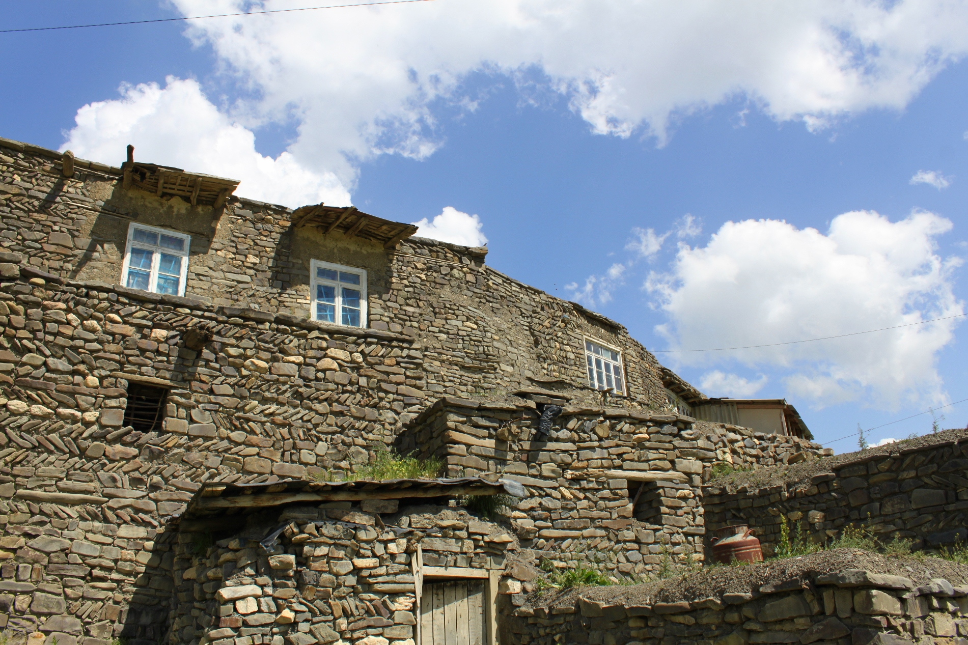 Xinaliq villige Quba, Azerbaijan.